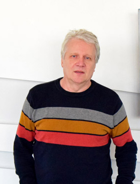 works in different ranges, as a painter and experimenter of tendentious of art